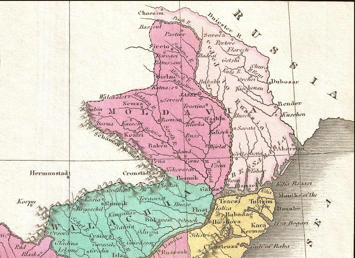 Map of Turkey in Europe, Greece and the Balkans, extract of Anthony Finley, A New General Altas, Comprising a Complete Set of Maps, representing the Grand Divisions of the Globe, Together with the several Empires, Kingdoms and States in the World; Compiled from the Best Authorities, and corrected by the Most Recent Discoveries, Philadelphia, 1827.